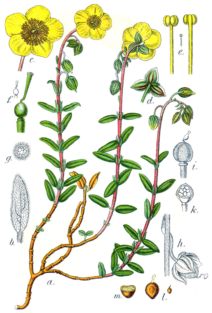 FloraWeb.de: Helianthemum nummularium subsp. grandiflorum (Scop.) Schinz & Thell. : Helianthemum grandiflorum subsp. grandiflorum, syn. Helianthemum vulgare Gaertn., Helianthemum nummularium subsp. ovatum (Viv.) Schinz & Thell., Helianthemum nummularium subsp. grandiflorum (Scop.) Schinz & Thell., Cistus helianthemum L. Original Caption Echtes Sonnenröschen, Cistus helianthemum